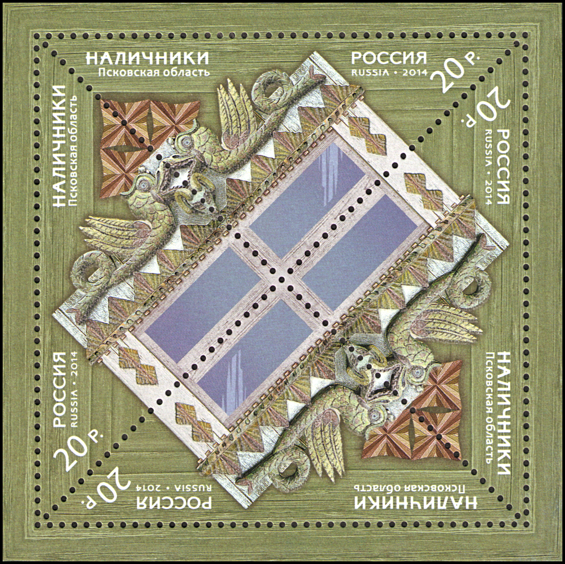 Decorative and Applied Arts of Russia (ongoing stamp series, issue IV). Carved wooden windows. A window of Pskov Oblast. The stamp of Russia, 20.00 Rubles, 28 November 2014, PTC Marka Catalogue No 1896–1897. The triangular stamps were issued in the sheets of small format: 2 stamps No 1896 and 2 stamps No 1897 in 1 sheet. Coated paper. Offset printing, lacquering. Perforation: frame 11½. Size of the stamp: 50×50×70 mm (35×70 mm). Size of the stamp sheet: 80×80 mm. Print run: 110,000 copies of every stamp, 55,000 sheets.